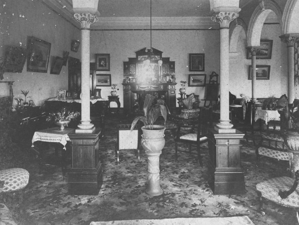 Drawing room at Stanley Hall during E. G. Blume's occupancy, ca. 1910 This large masonry residence was erected c1885-86 as a single-storeyed building for successful Brisbane produce dealer John William Forth. The house was remodelled and two-storeyed additions were constructed for the subsequent owner, Western Queensland pastoralist Herbert Hunter, in 1890. Hunter eventually sold Stanley Hall in 1910 to wealthy pastoralist Edward Goddard Blume, who owned a string of stations (principally sheep) throughout Queensland and New South Wales.Blume was well known in Queensland social circles, and during the visit of the Prince of Wales to Brisbane in July 1920, entertained the Prince at Stanley Hall.